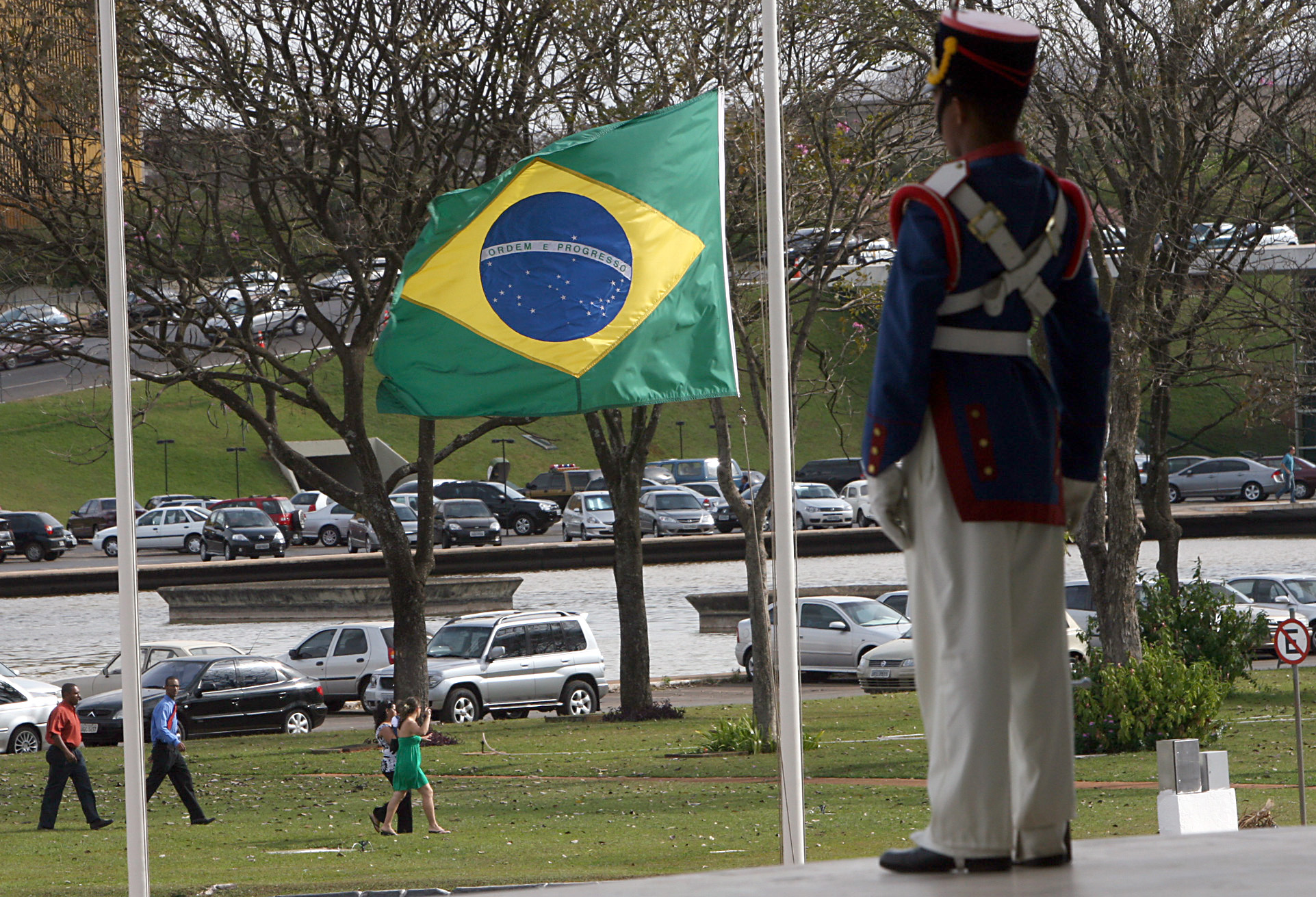 Brasília - Brazilian flag at the Palácio do Planalto at half staff after the TAM Airlines Flight 3054 Airbus A320 accident